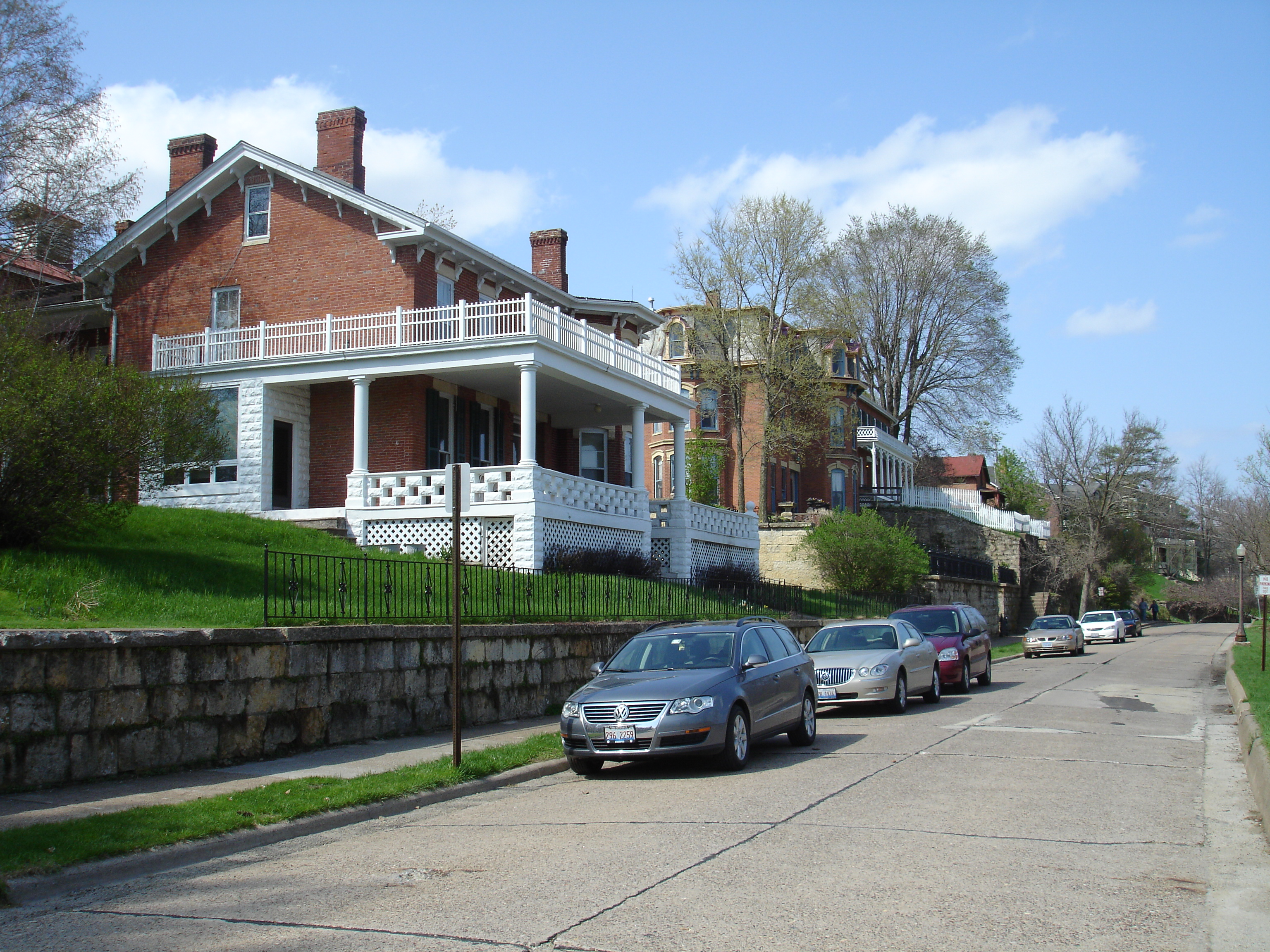 Prospect Street, part of the Galena Historic District, Galena, IL, USA. U.S. National Register of Historic Places